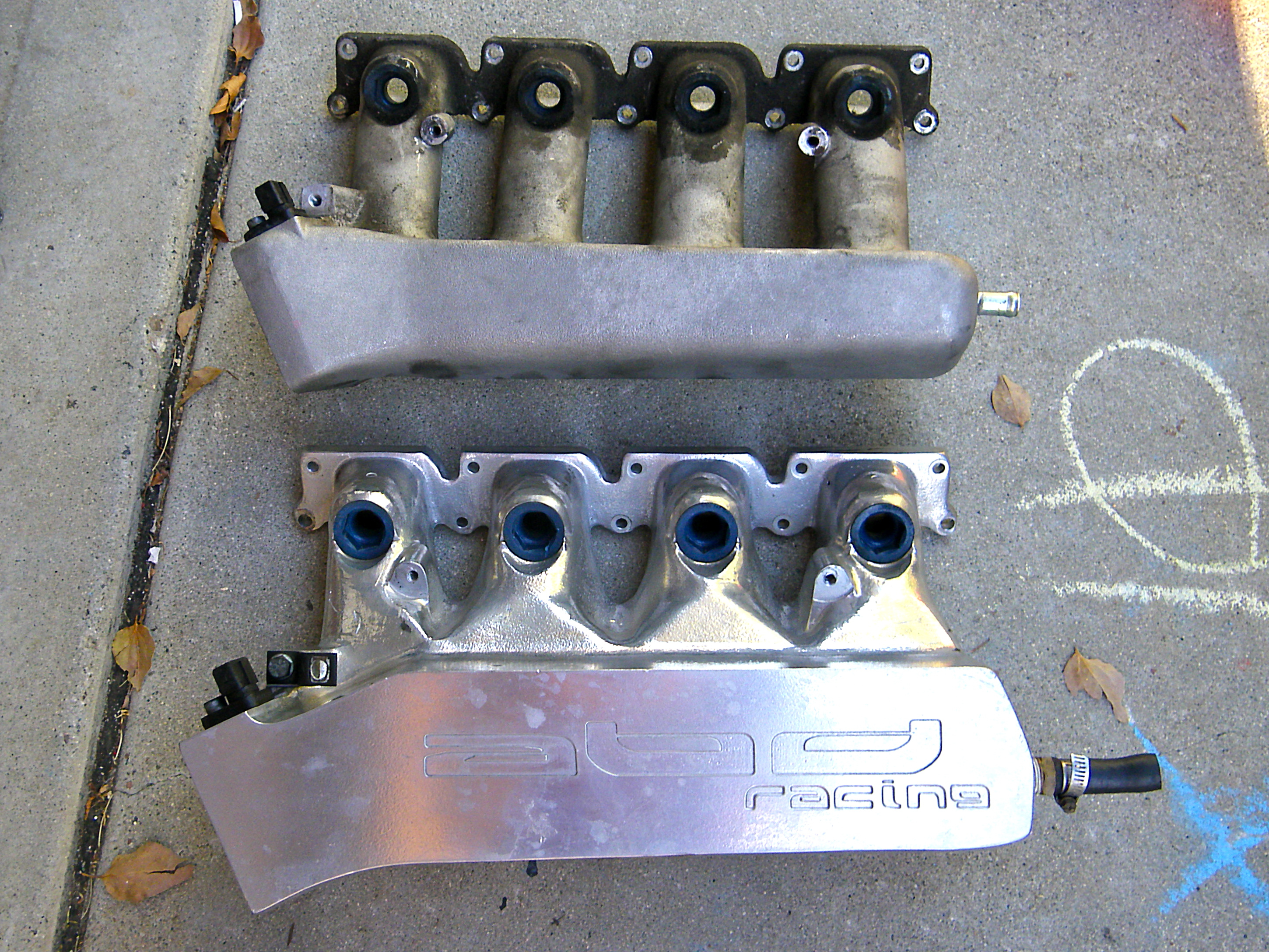 A comparison between a stock VW 1.8T intake manifold for a fuel-injected engine (upper) versus a custom-built type used for engine tuning (lower)